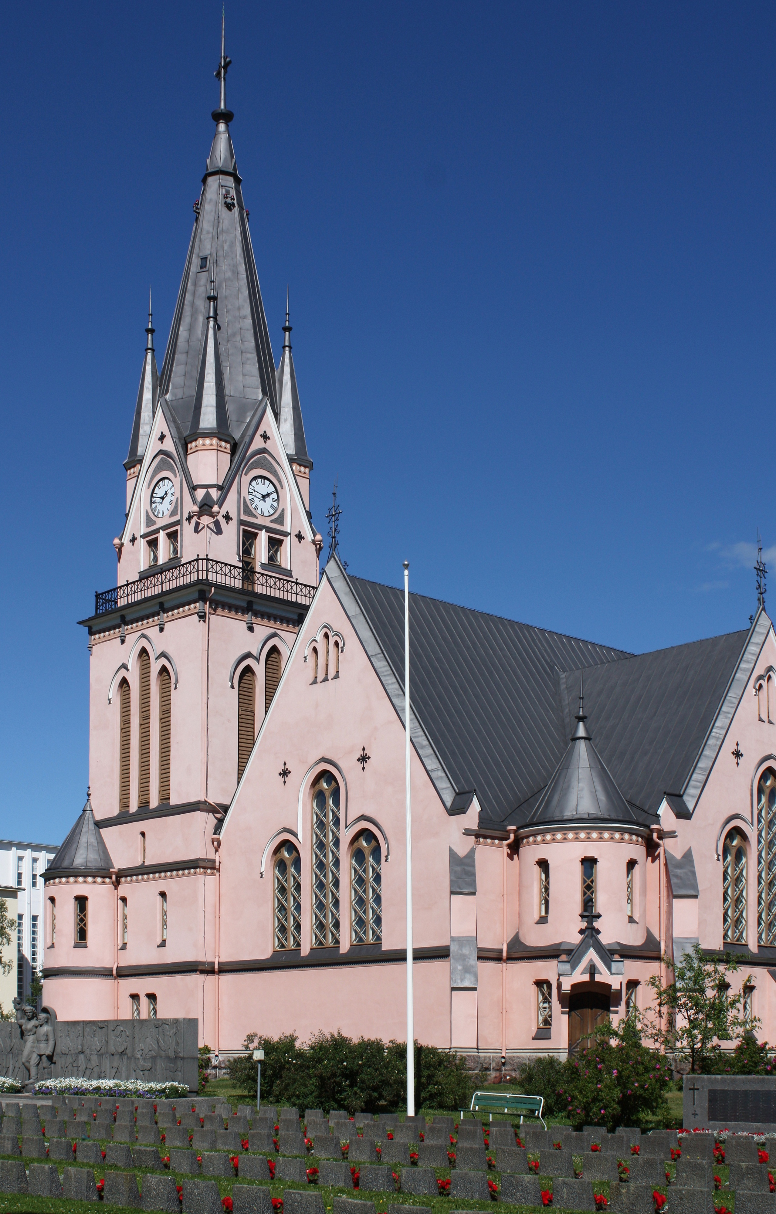 Kemi Church with war cemetary in the foreground.